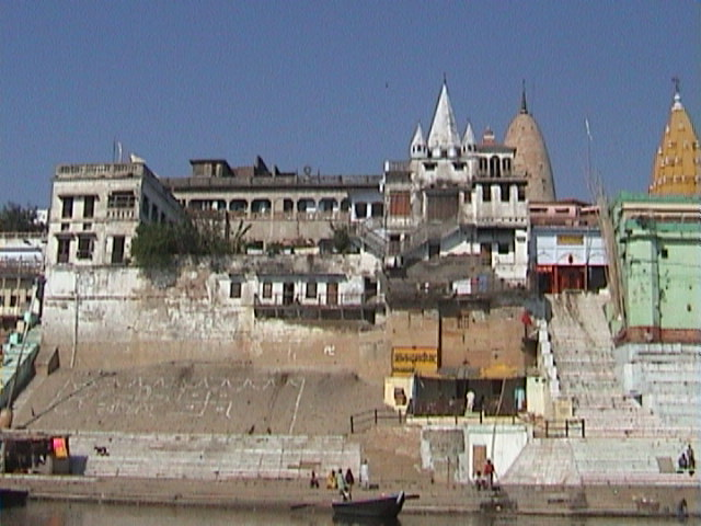 Hindu culture, have attributed supreme importance to the preservation of tradition Classical civilizations, and especially the Indian one, have attributed supreme importance to the preservation of tradition. Its central idea was that social institutions, scientific knowledge and technological applications need to use "heritage" as a "resource". Using contemporary language, we would say that ancient Indians considered, as social resources, both economic assets (like natural resources and their exploitation structure) and factors promoting social integration (like institutions for preserving knowledge and maintaining civil order). Ethics considered that what had been inherited should not be consumed, but should be handed over, possibly enriched, to successive generations. This was a moral imperative for all, except in the final life stage of sannyasa